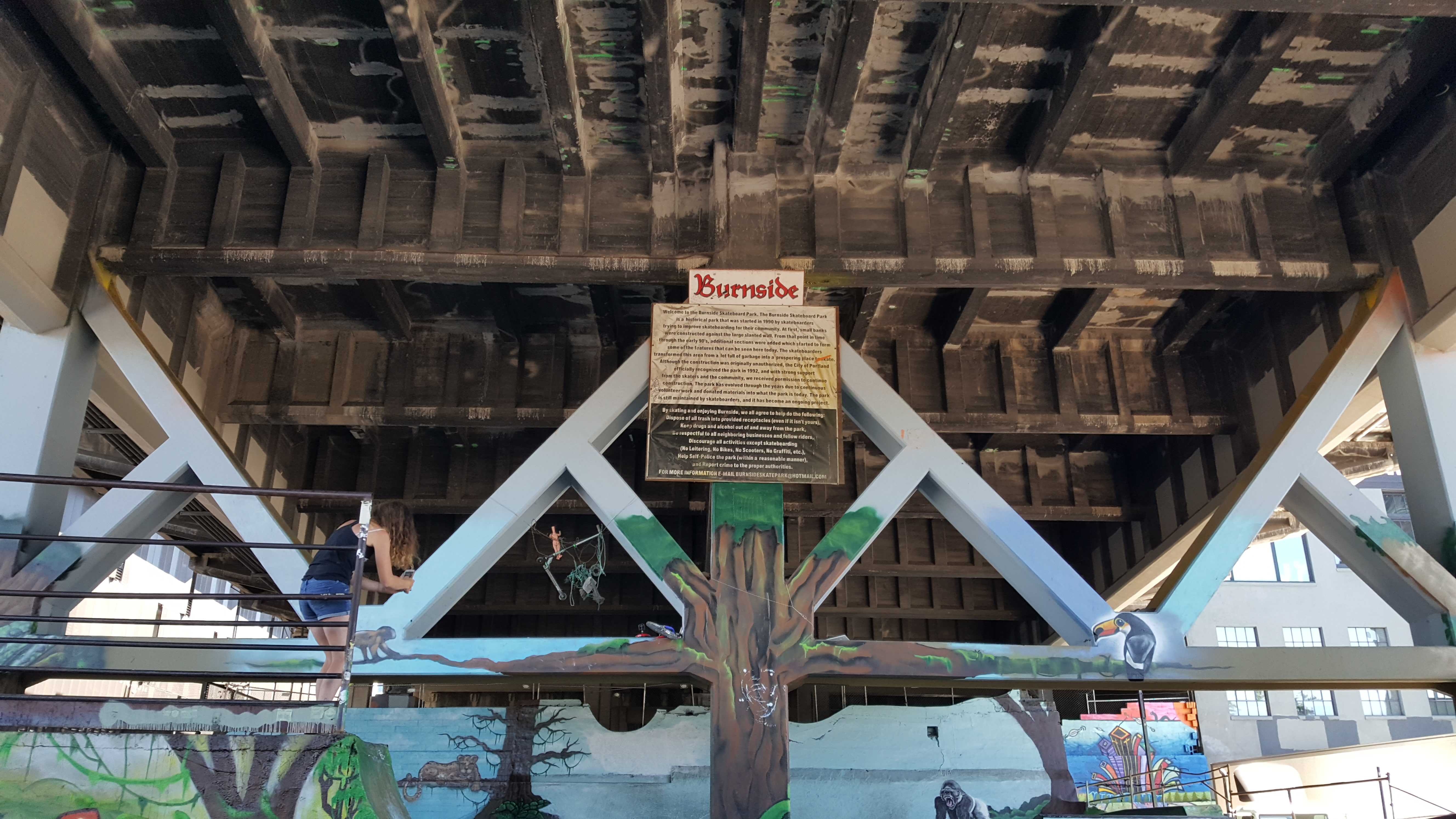 Portland, Oregon, July 25, 2020